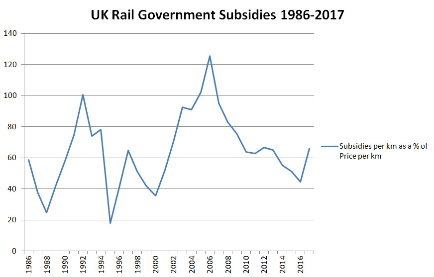 Passenger-km adapted from Department of Transport, real subsidies adapted from Office of Rail and Road.